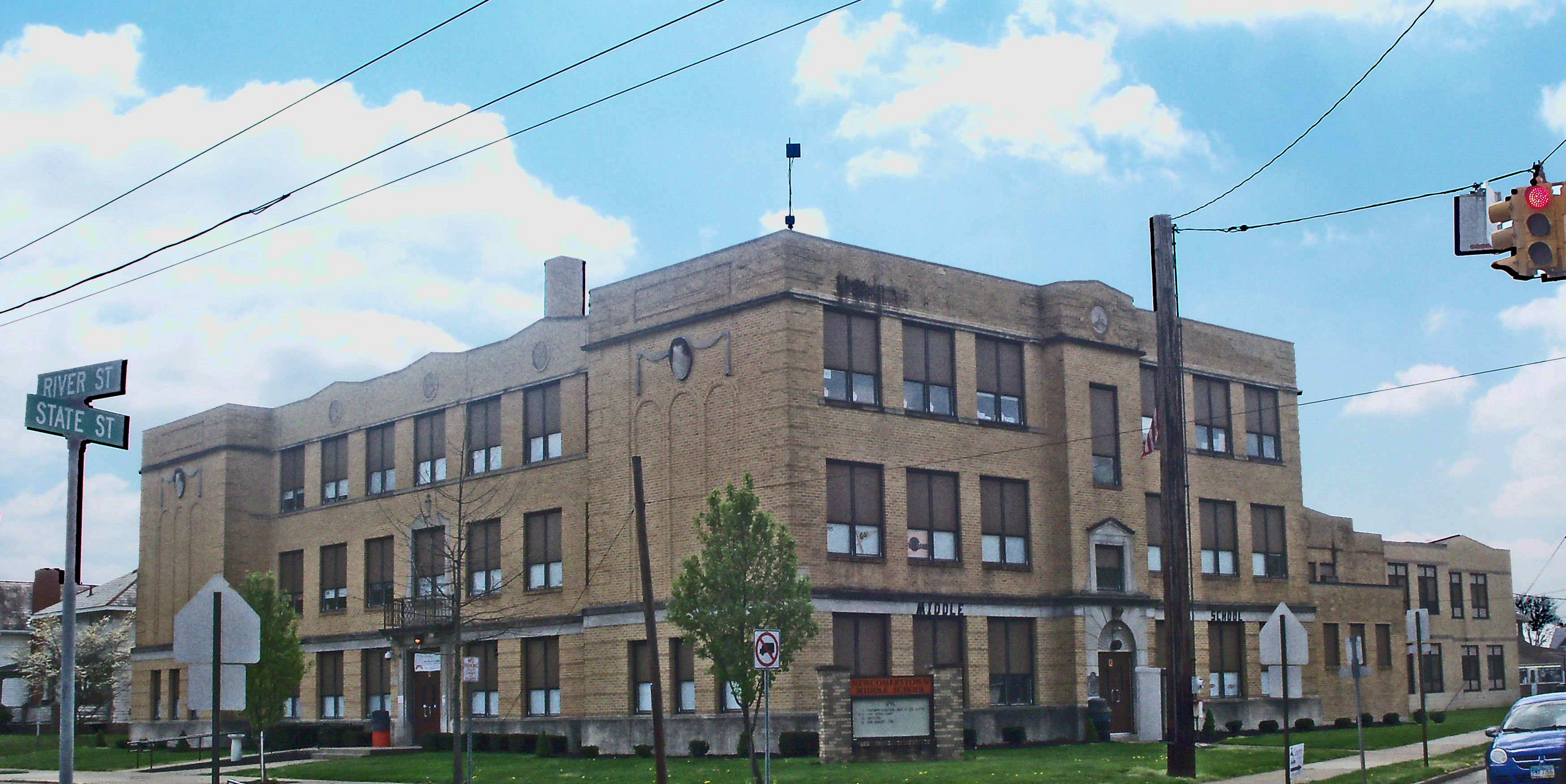 Newcomerstown, Ohio Middle School, affiliated with the Newcomerstown High School